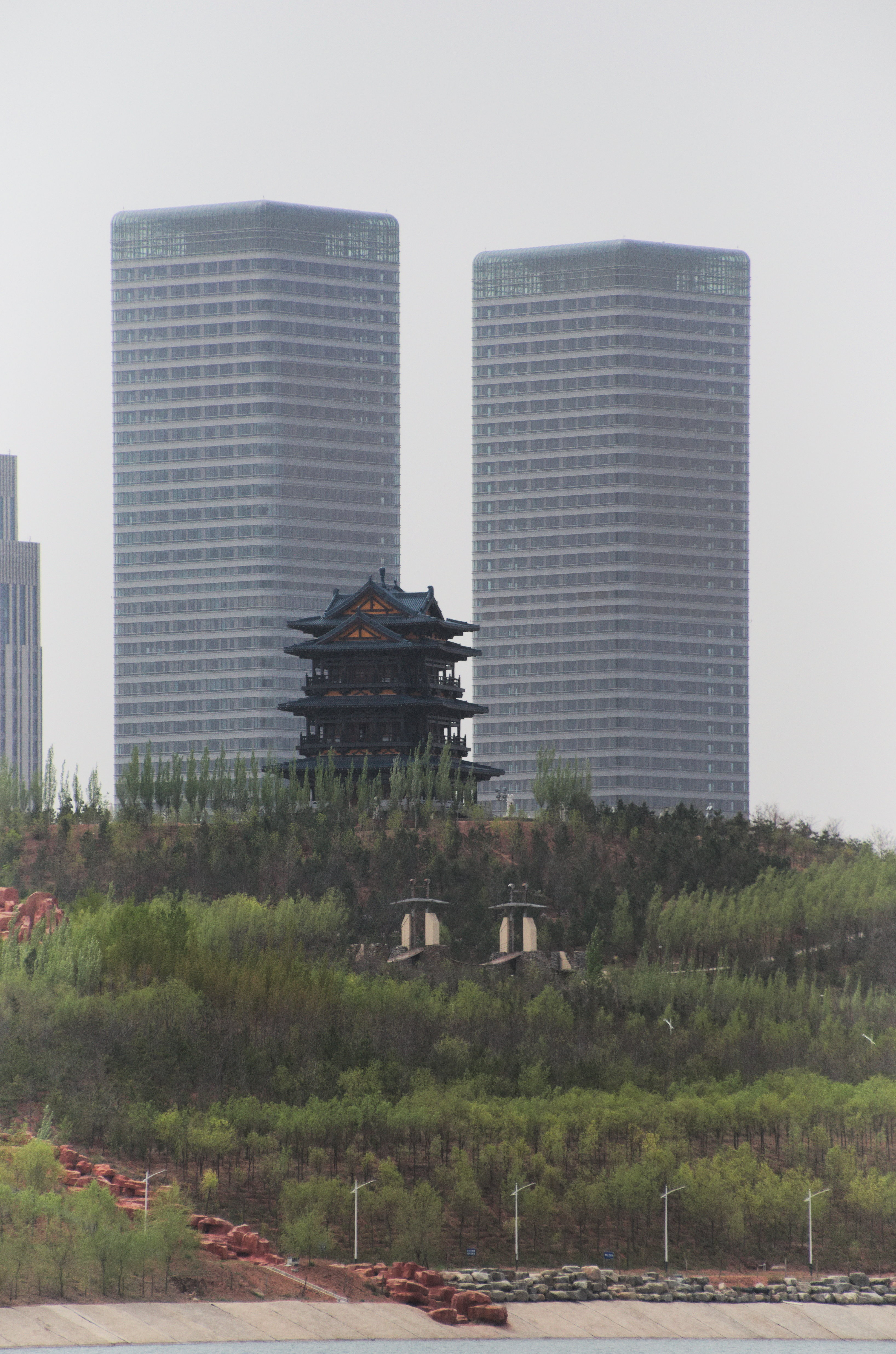 Two tall towers in the new Kang Bashi district, are aligned with the perspective from the Townhall, with between them, big gardens, municipal library, museum and Opera, at Ordos City, Inner Mongolia, in China. The tower in the old chinese style is located in one of the big gardens along the river Mulan Mulun 乌兰木伦河 passing though the City. Picture taken from the Ulan wood Aaron landscape lake (乌兰木伦景观湖).